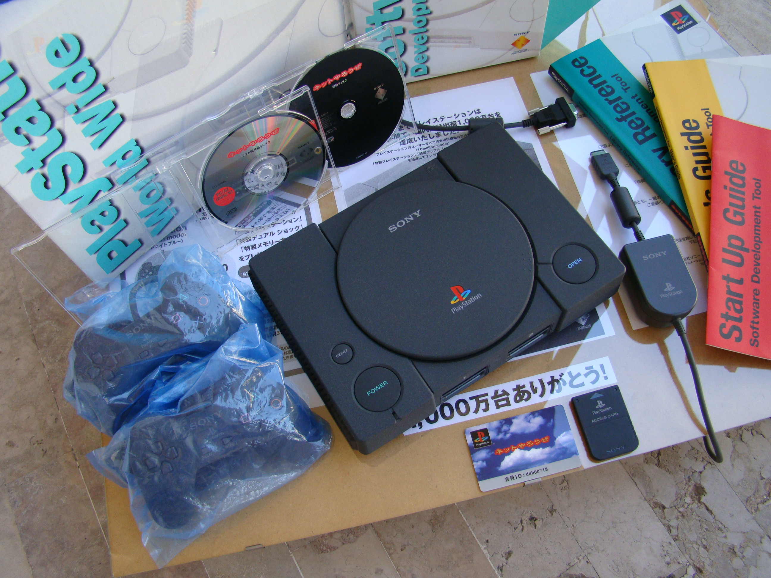 Net Yaroze (Original Version) SDK / Manual, Hardware, Software, Access Card, Connection Cable and License Card for User / Photo by: Robert Sebo / Package by: Robert Sebo (User: Yaroze)